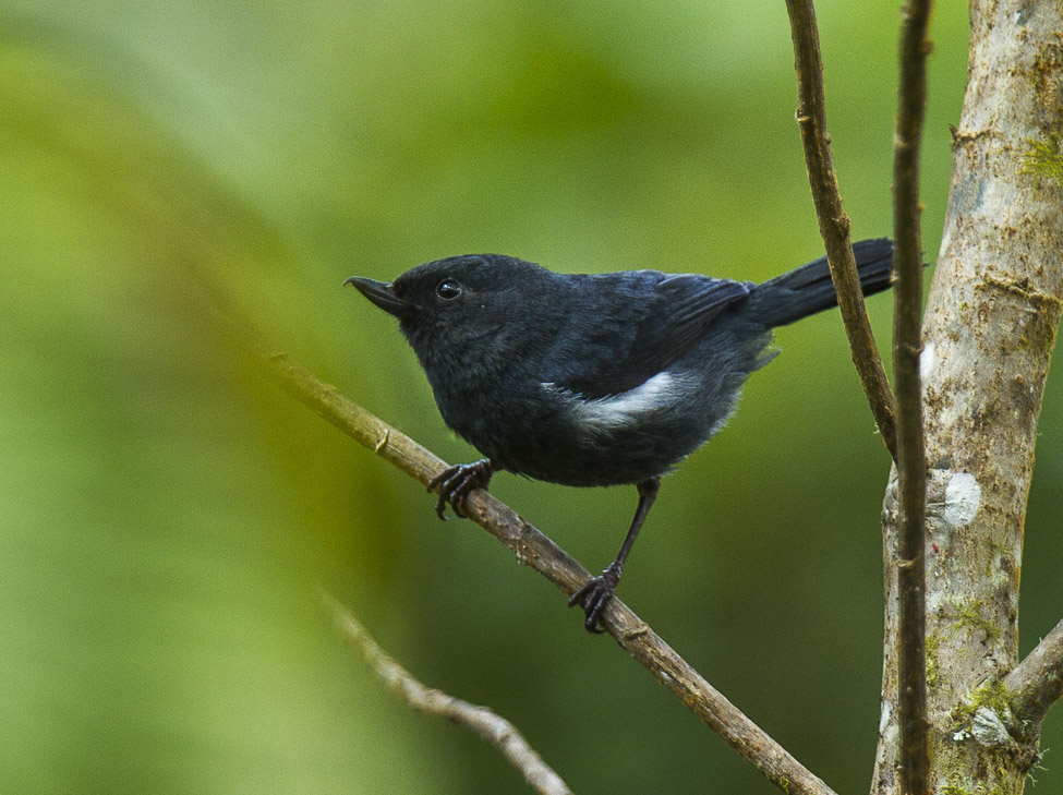 White-sided Flowerpiercer - South Ecuador_S4E2856